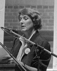 Ria Beckers, 17 June 1989